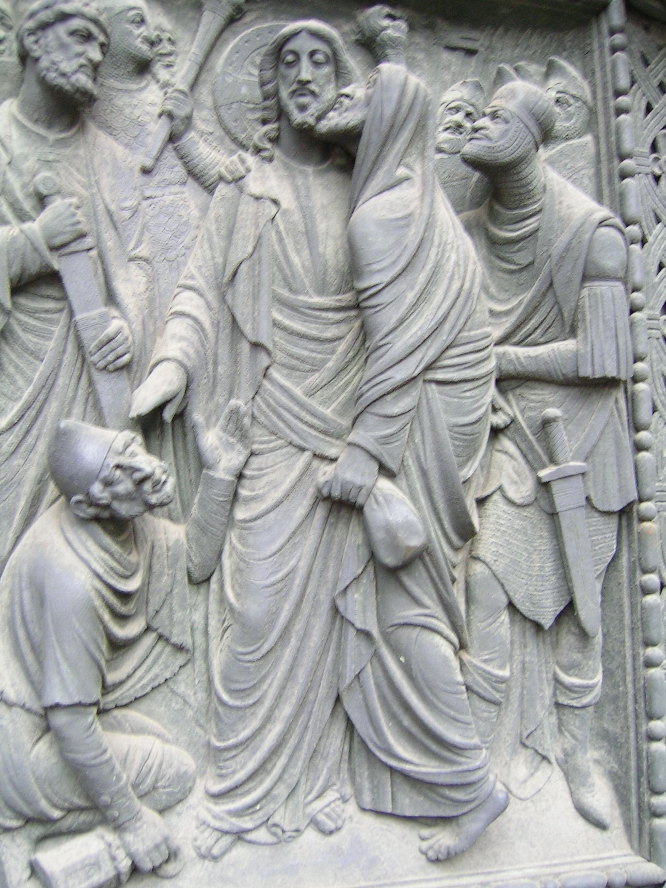 index of plates on the right door Plate Number 15 ( see index on the right ), on the right Door of ST Petri Dom in Bremen, Germany. User:Tarawneh/rami